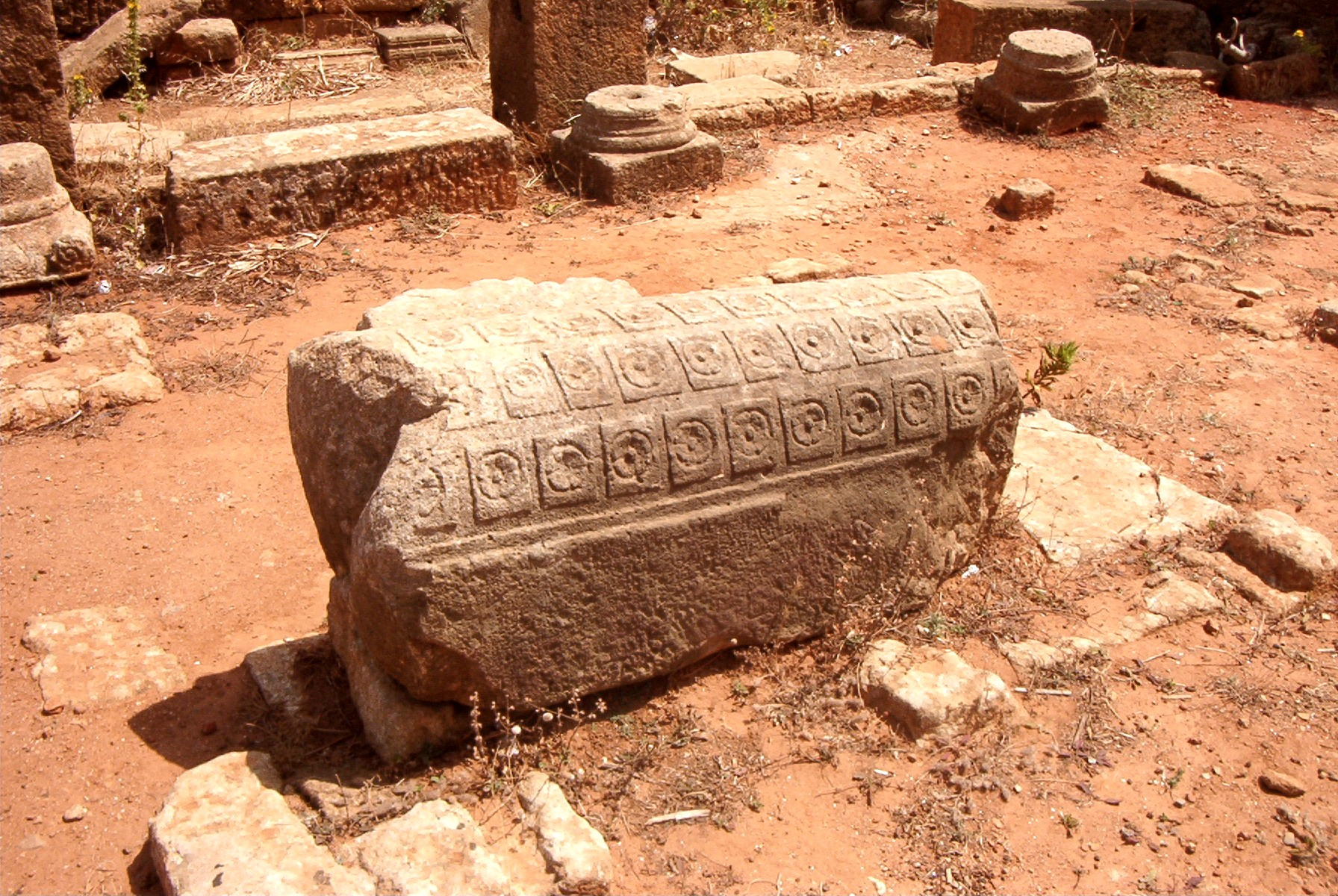 Ruins of the Byzantine era Basilica of St. Crispinus — in Tipaza, northern Algeria.